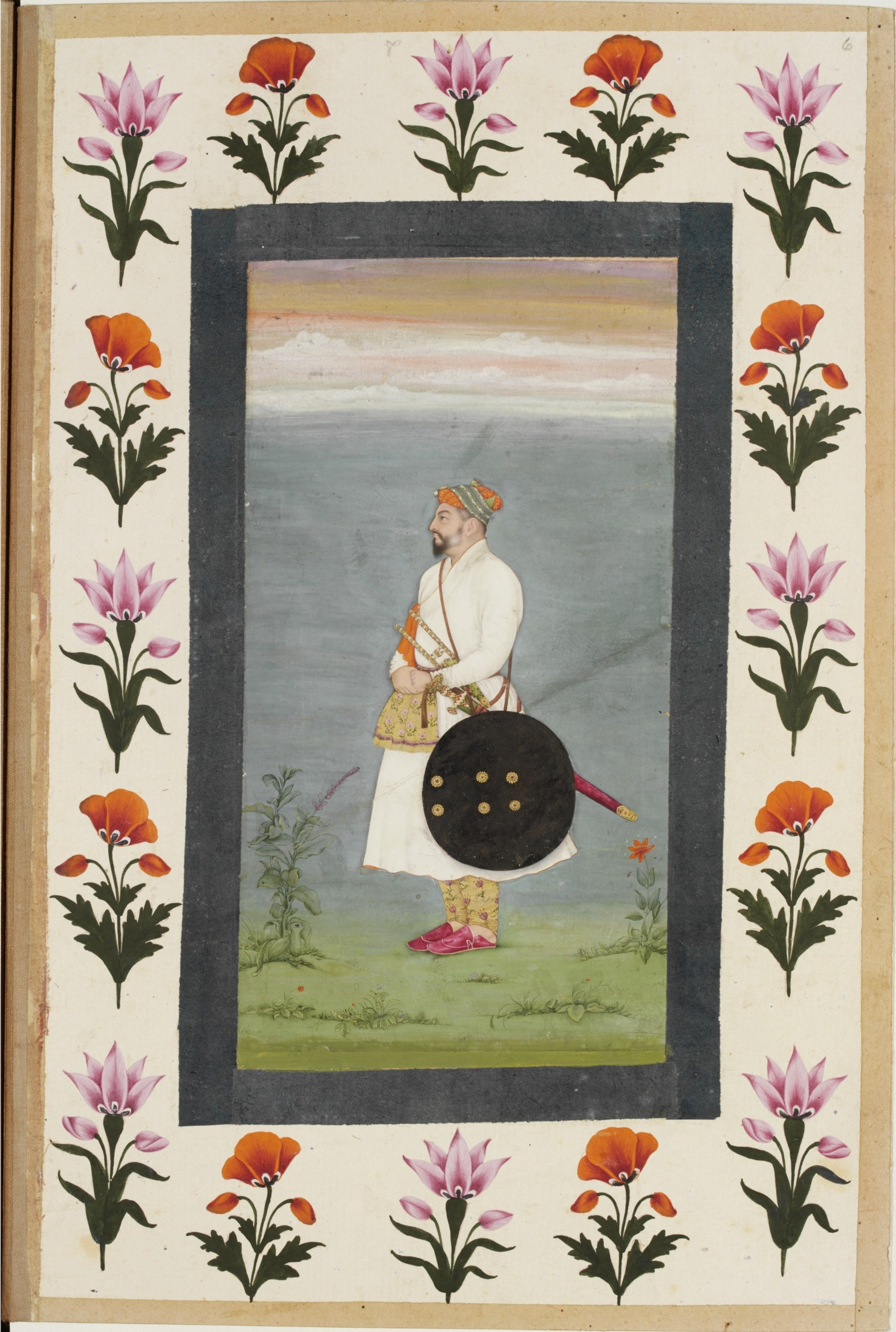 Mughal School - Standing figure of an officer from the Small Clive Album